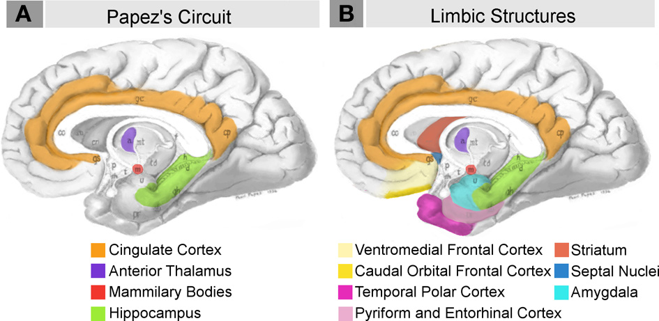 Schematic briefly summarizing neural systems proposed to process emotion, highlighting structures that are visible on the medial surface of the brain. Papez's (1937) original circuit (A) was expanded upon in the concept of the limbic system (B) to include a variety of subcortical and cortical territories (MacLean, 1952; Heimer and Van Hoesen, 2006). (Structures like the anterior insula and nucleus basalis of Meynert, which are not visible on the medial surface of the brain, are not represented here). Images modified from Papez's original drawing.